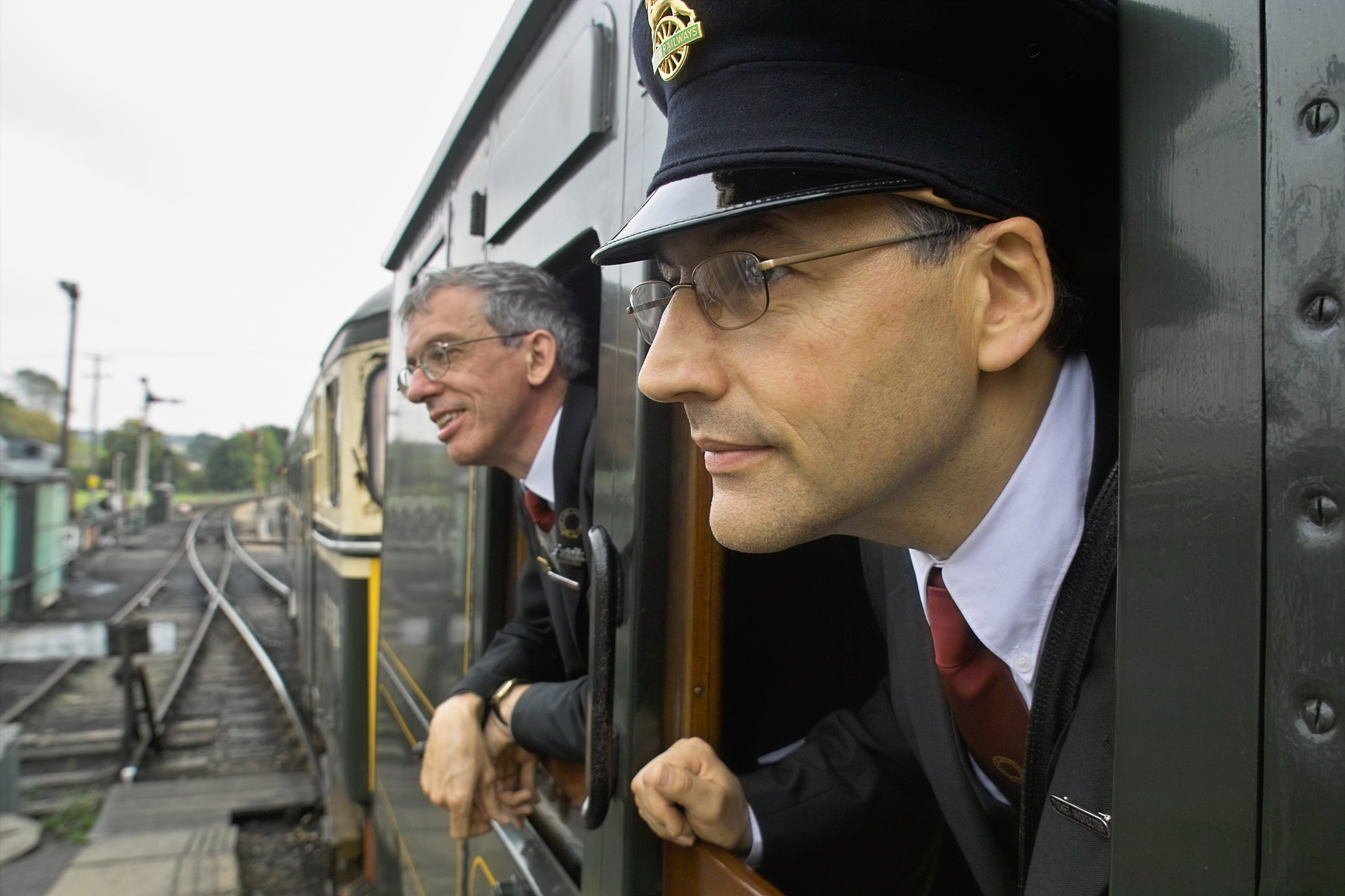 Volunteer staffers on the Kent and East Sussex Railway; at Rolvenden station, which is actually closer to Tenterden. The tag on the closer staffer says "Ticket Inspector"; the other has a similar uniform, but not sure if the same role. October 2005.